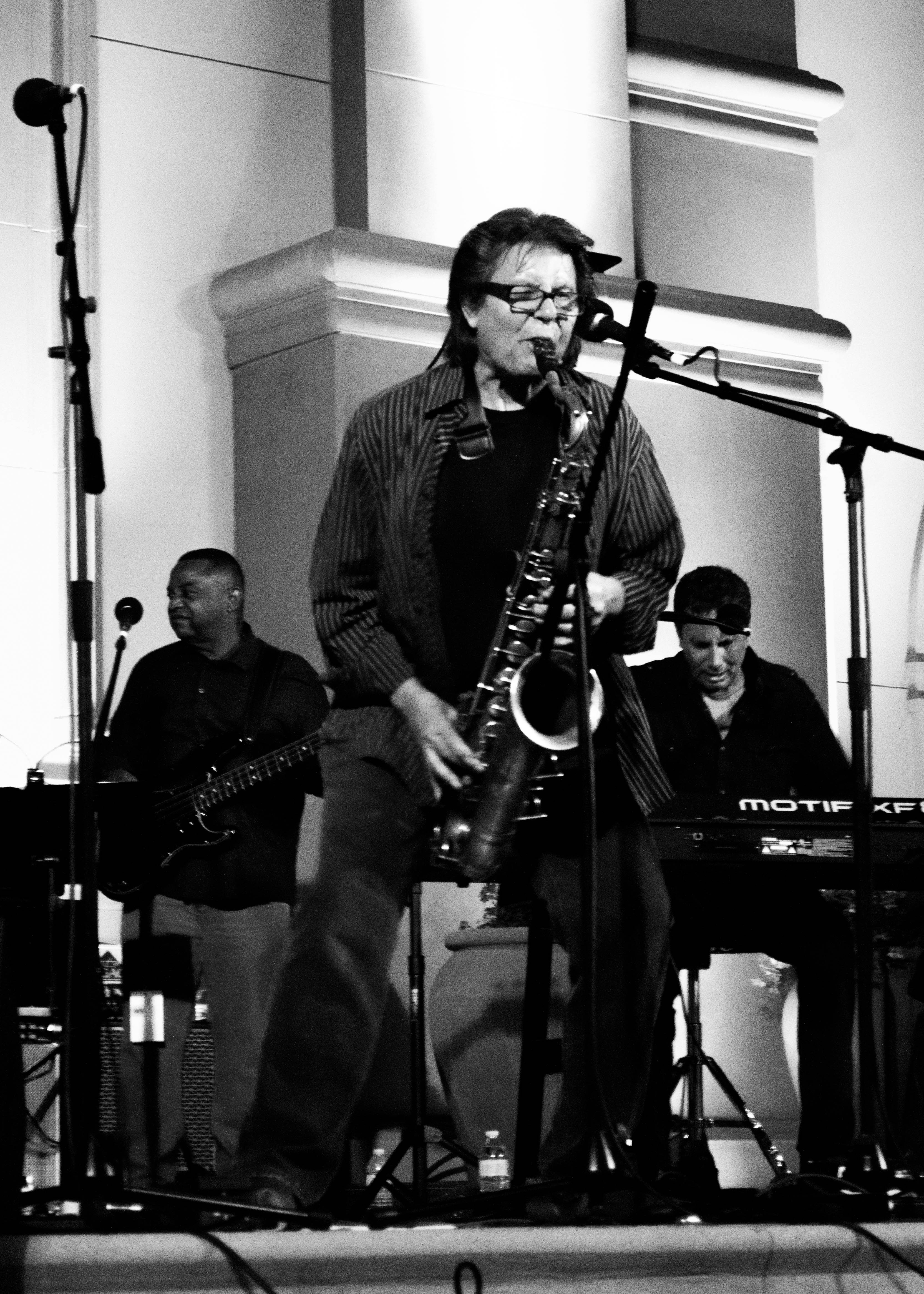 Former Pink Floyd, Toto, and Supertramp saxophonist Scott Page, playing with his band Hang Dynasty at the 2014 Temecula Valley International Film Festival.